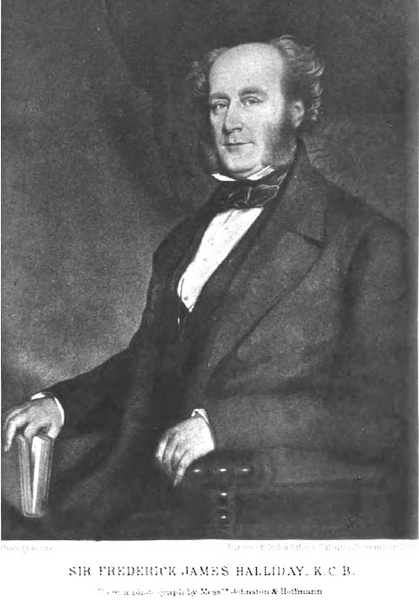 Sir Frederick James Halliday, KCB: first lieutenant-governor of Bengal, 1854-1859